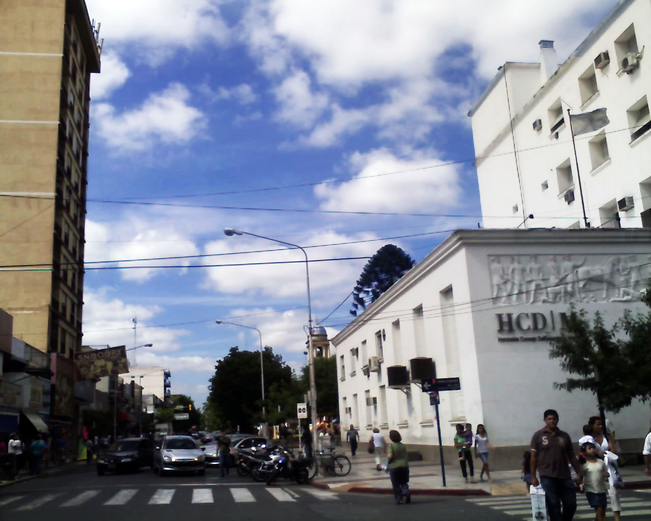 Moron Partido (Argentina). Corner of Belgrano and Brown Street and City Council Building.